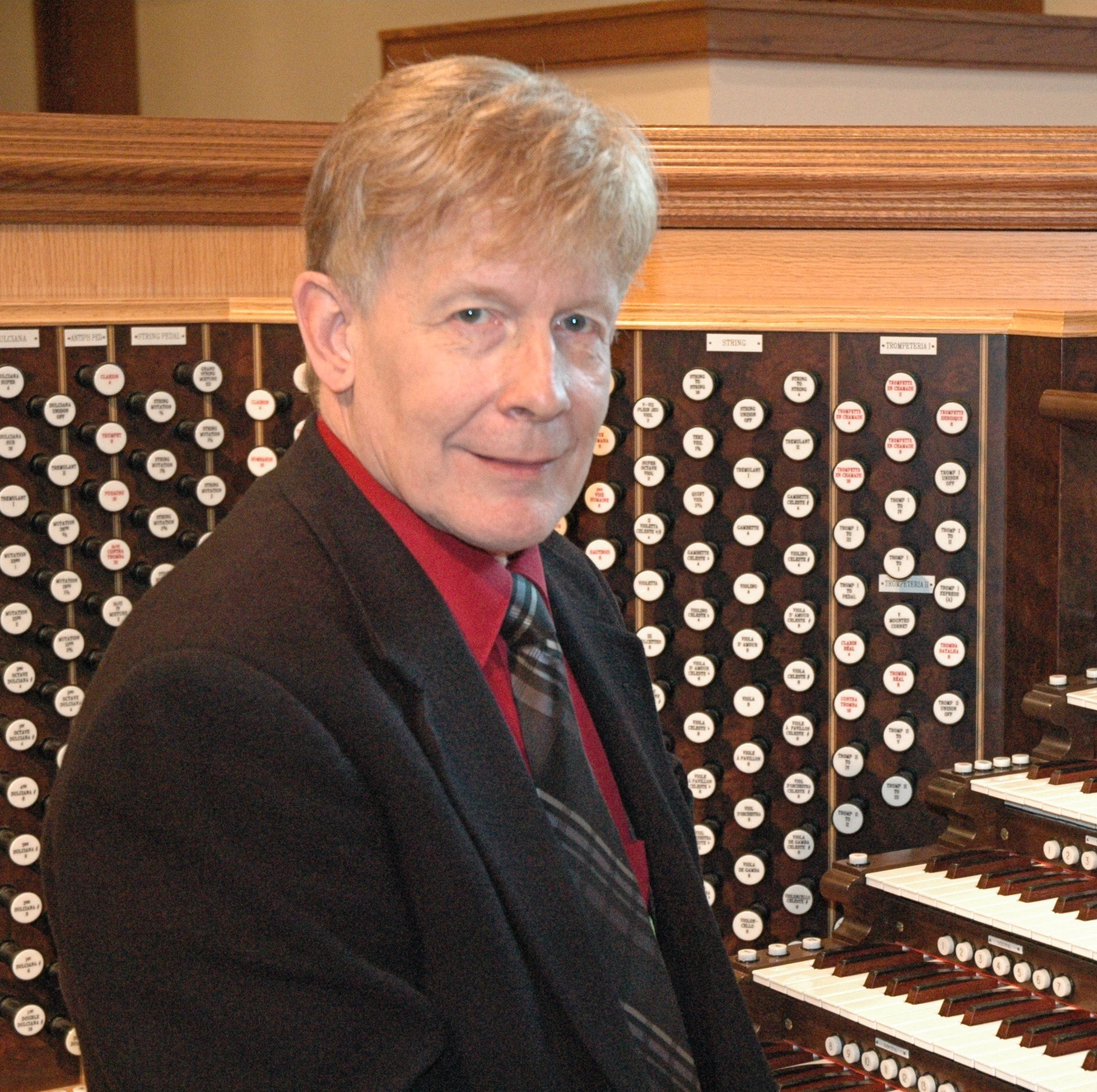 David Hegarty at the console the 389-rank Harrah Symphonic Organ, Forrest Burdette Memorial United Methodist Church, Hurricane, West Virginia, November 7, 2004